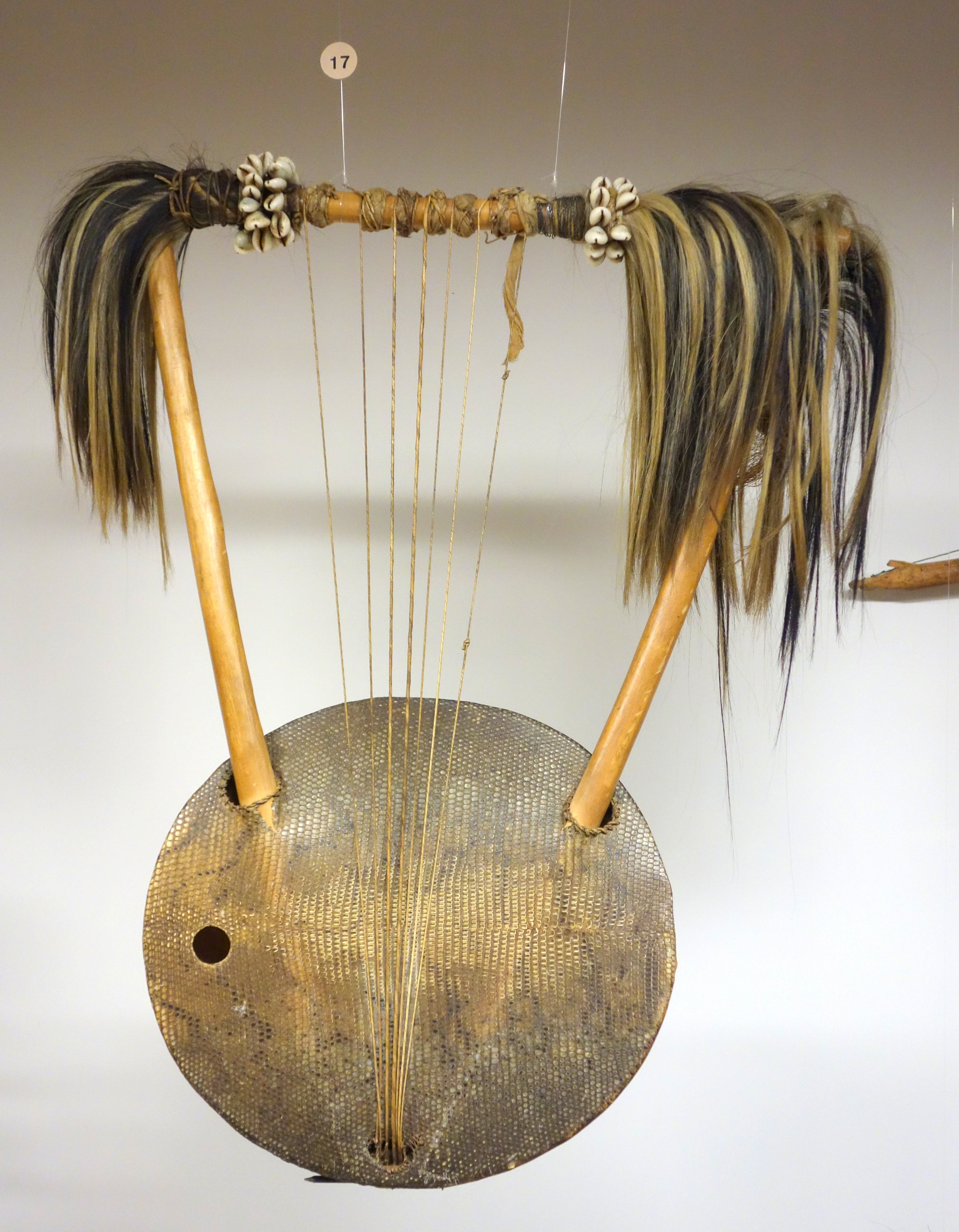 Exhibit in the Royal Museum for Central Africa, Tervuren, Belgium. This object is old enough so that it is in the public domain.